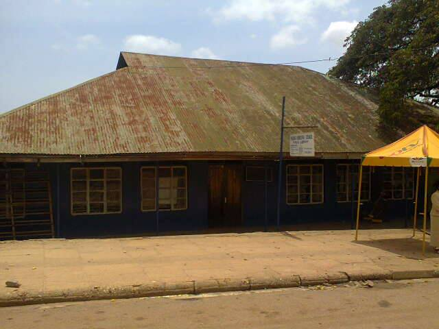 Public library in Masaka downtown